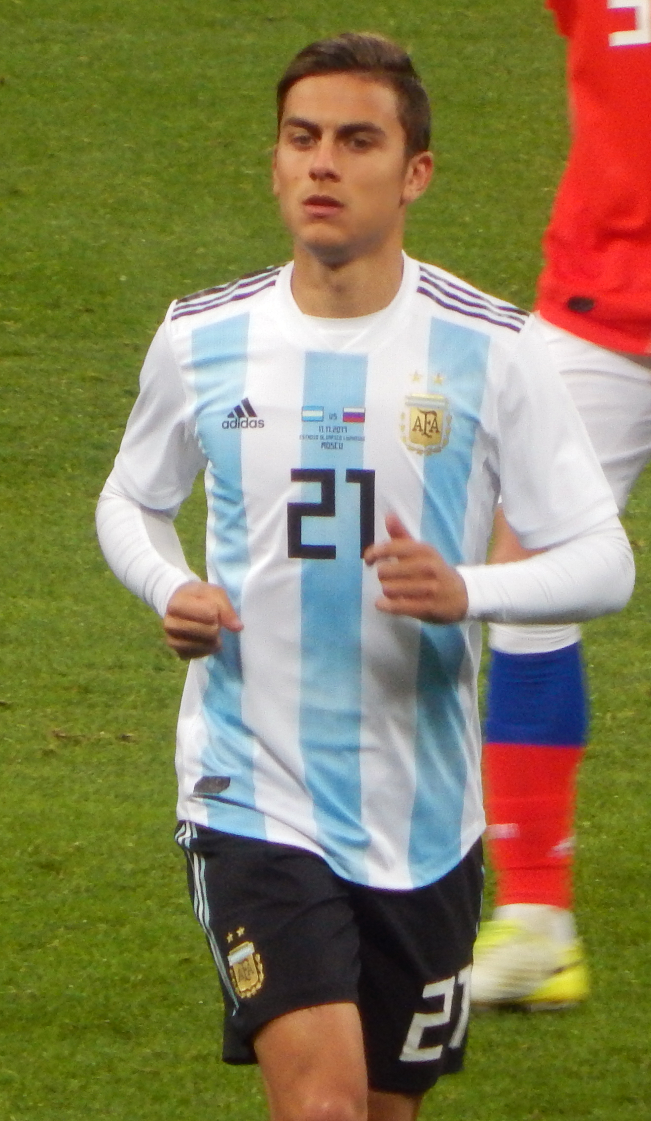 A friendly match between Russia and Argentina in Moscow, Luzhniki stadium, on November 11, 2017.